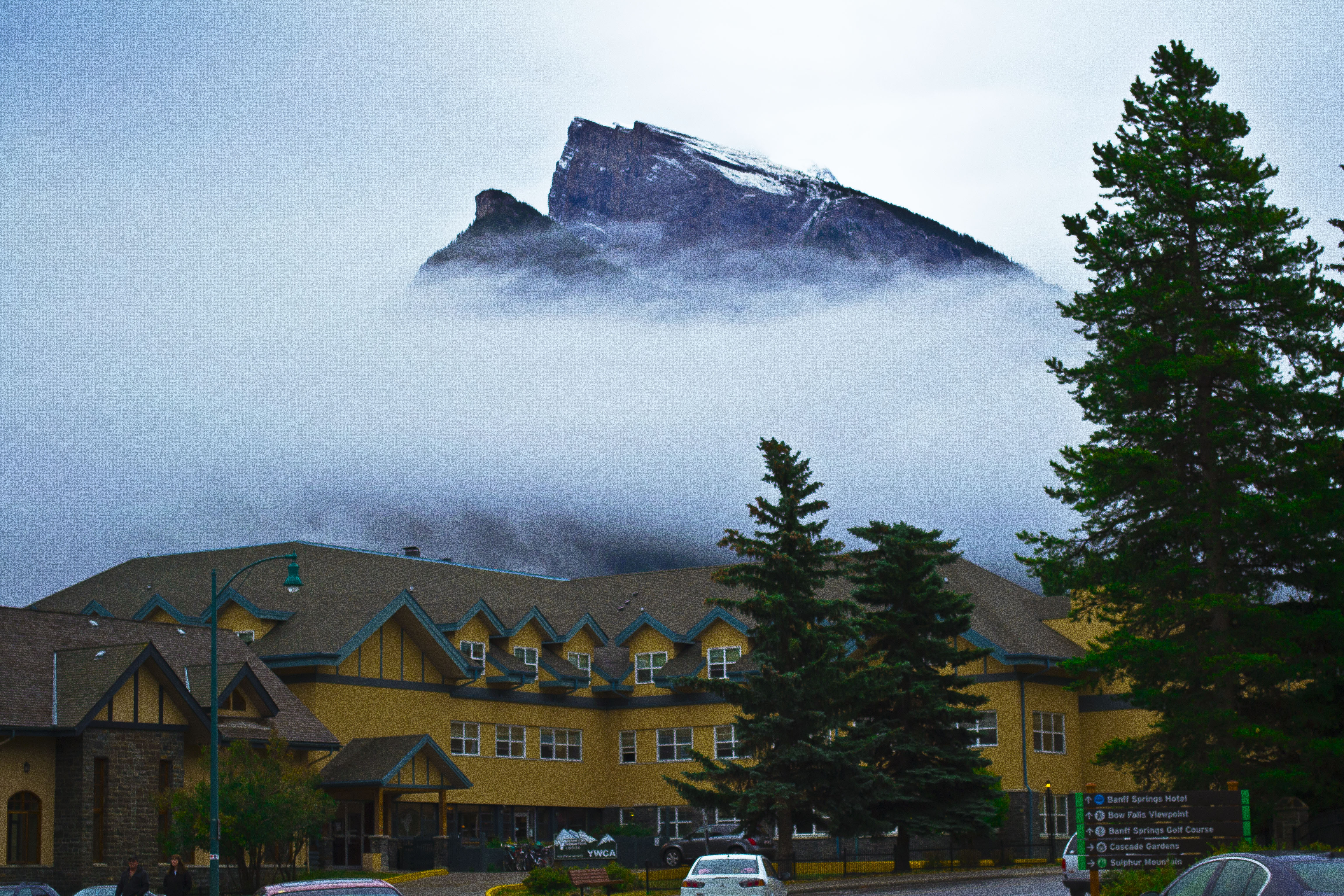 Monsoon in Banff, Canada